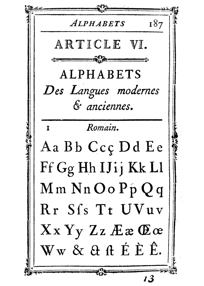 Type sample (Pierre Simon Fournier, Manuel Typographique, 1766)